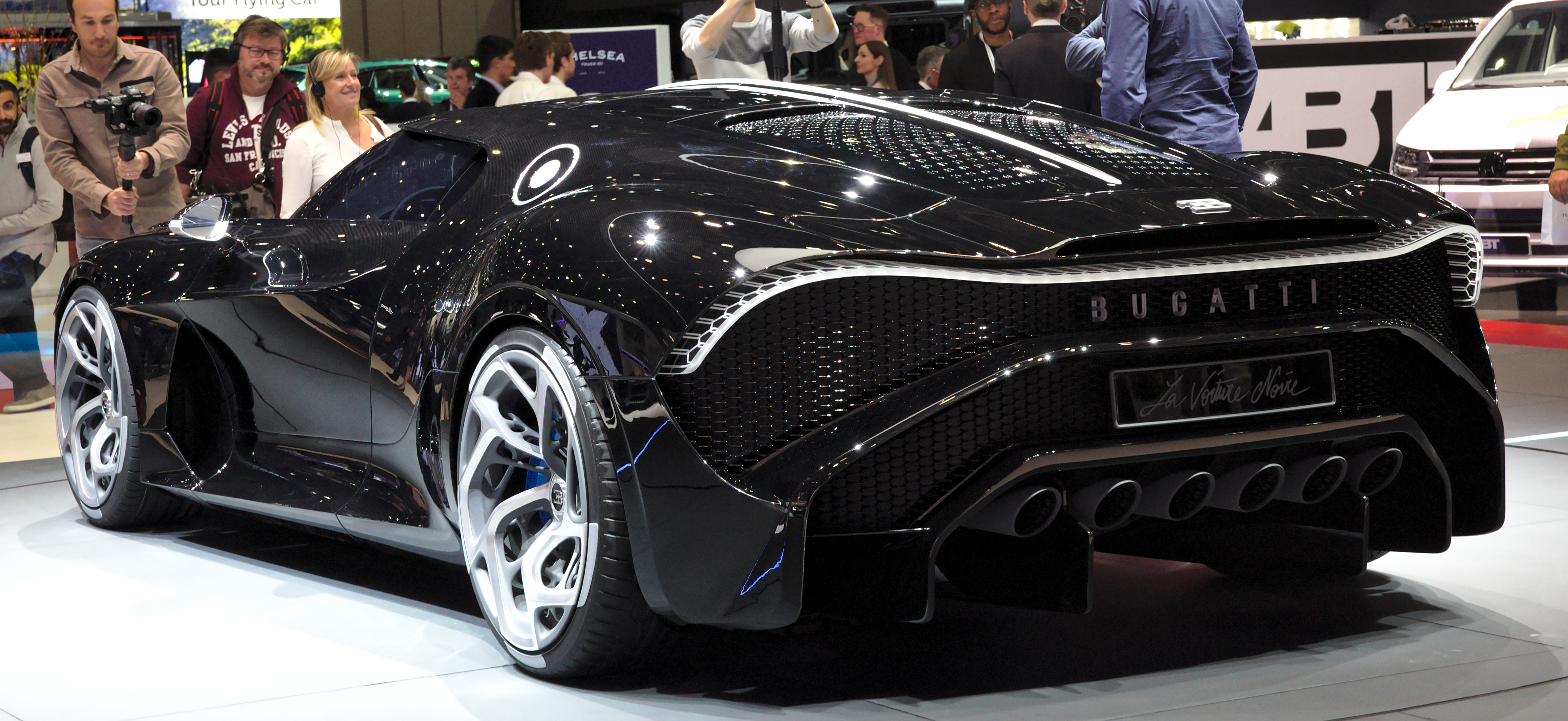 Bugatti La Voiture Noire at Geneva Motor Show 2019